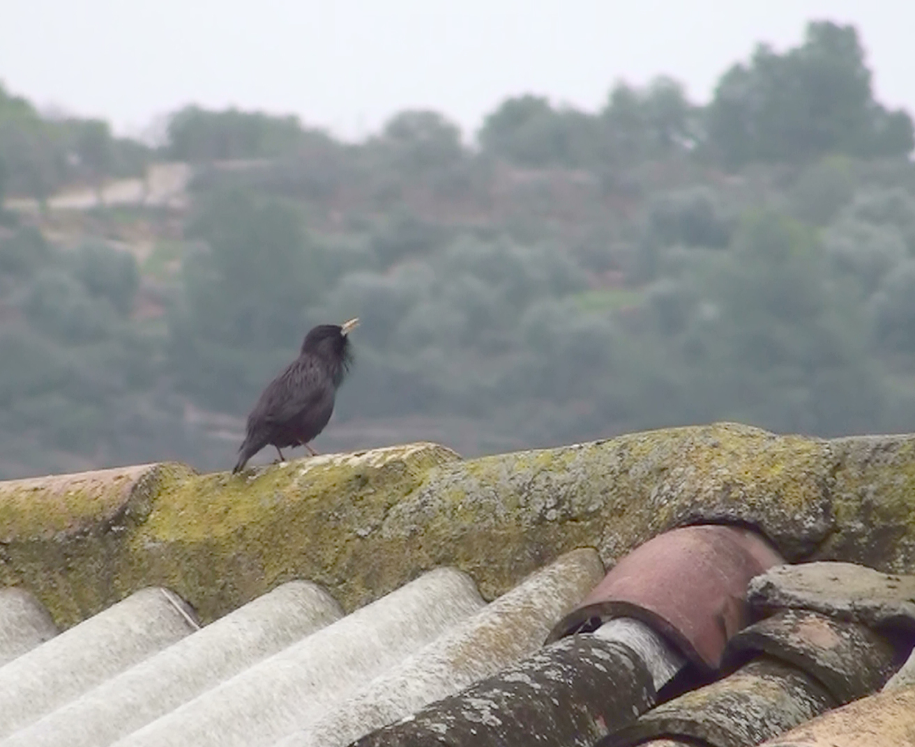 Spotless Starling in song on a rooftop of a village in Les Garrigues, Catalonia, northeast Spain.